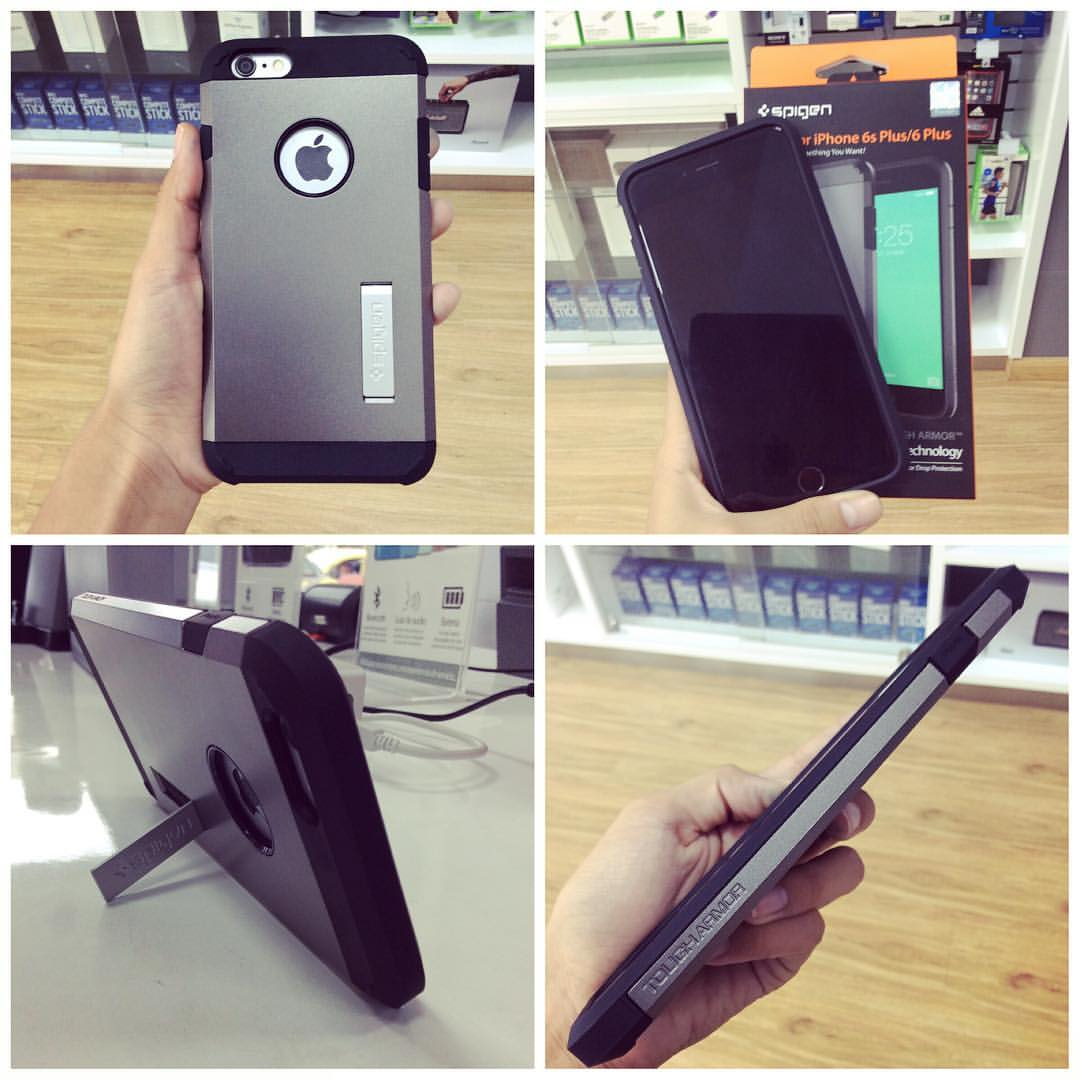 Four photos of a Spigen Tough armor case on an iPhone 6/6s Plus